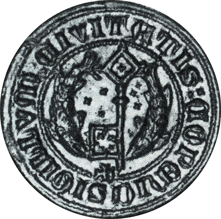 Seal of Köpenick.